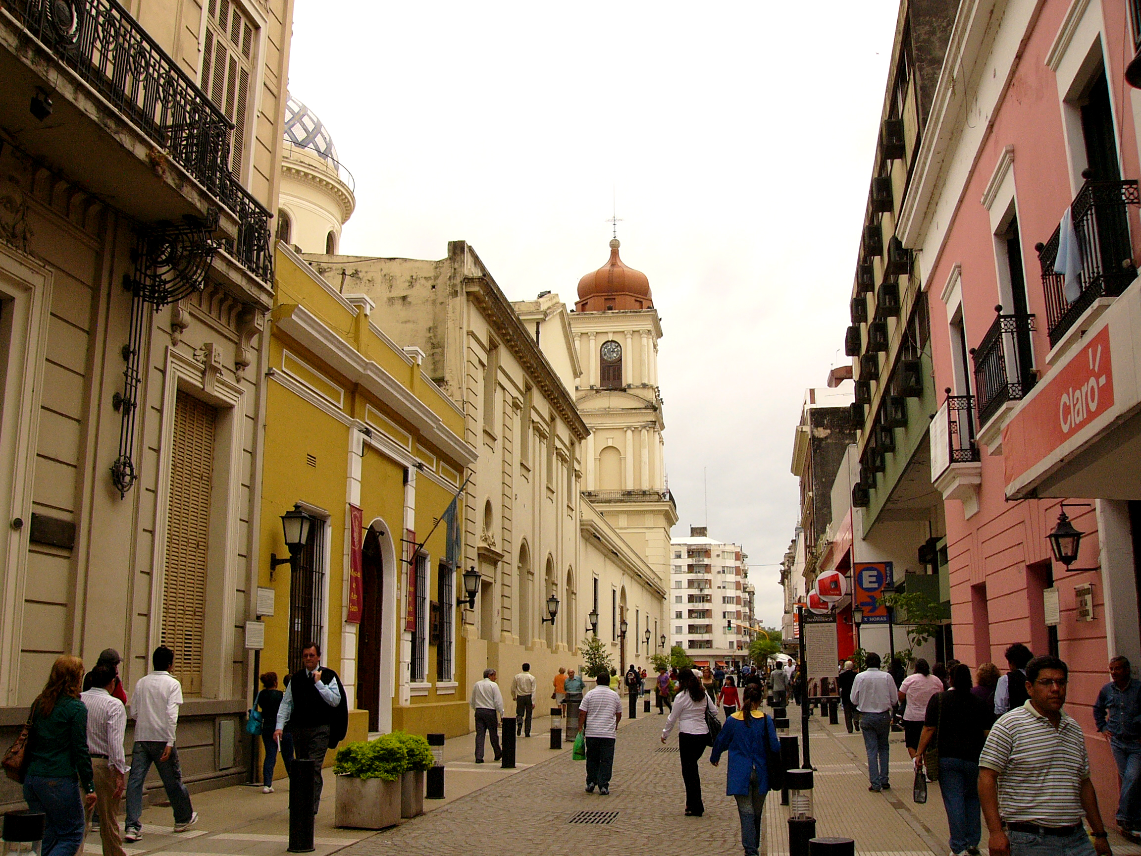 Congreso Street. San Miguel de Tucumán, Argentina.